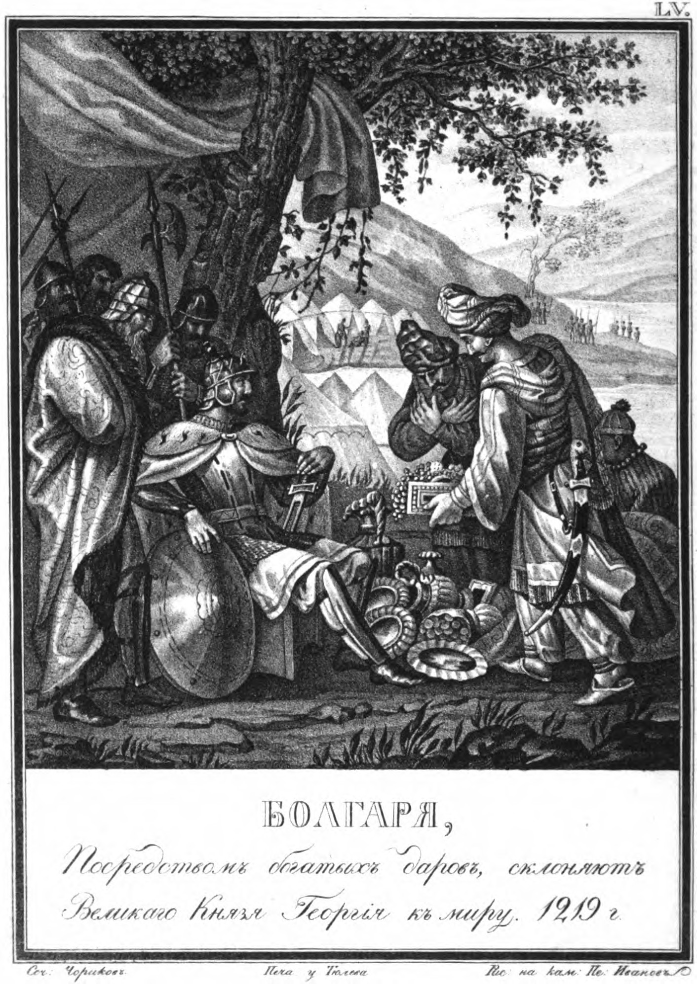 Illustration plate from the book Живописный Карамзин (1836), depicting the history of Russia.